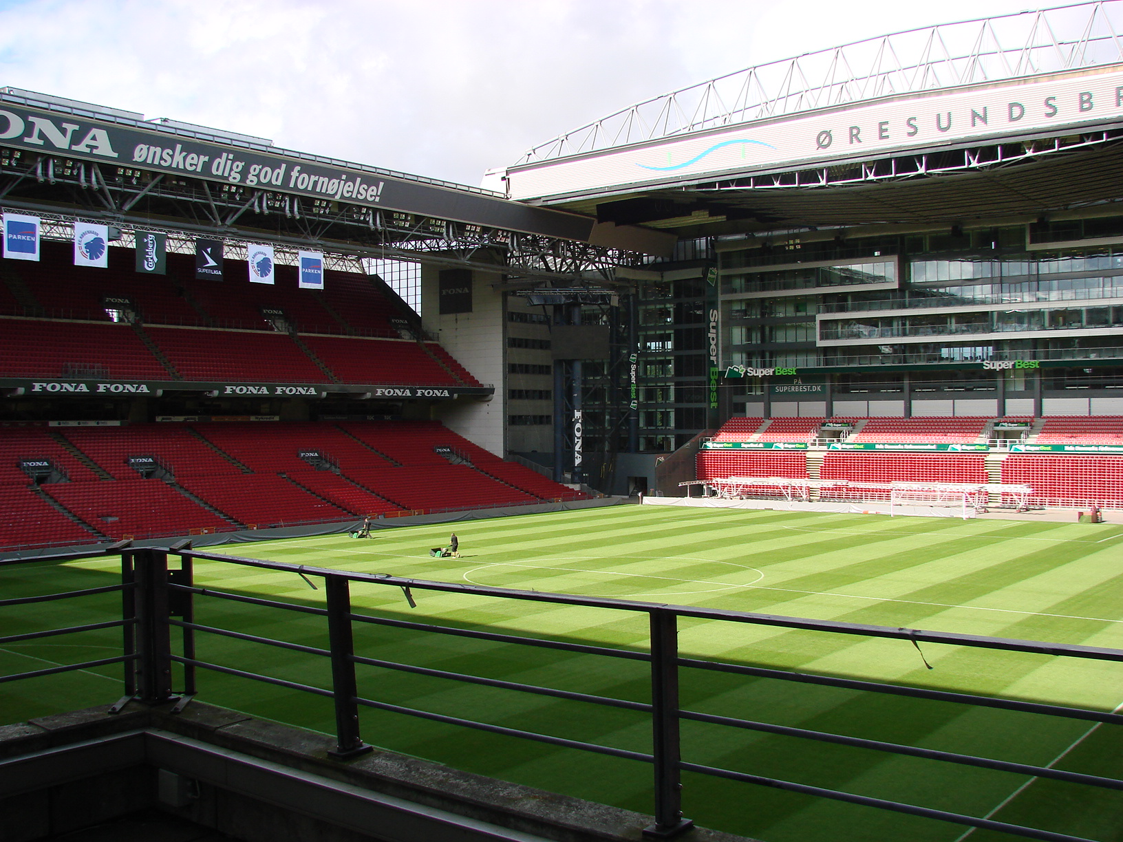 im Stadion